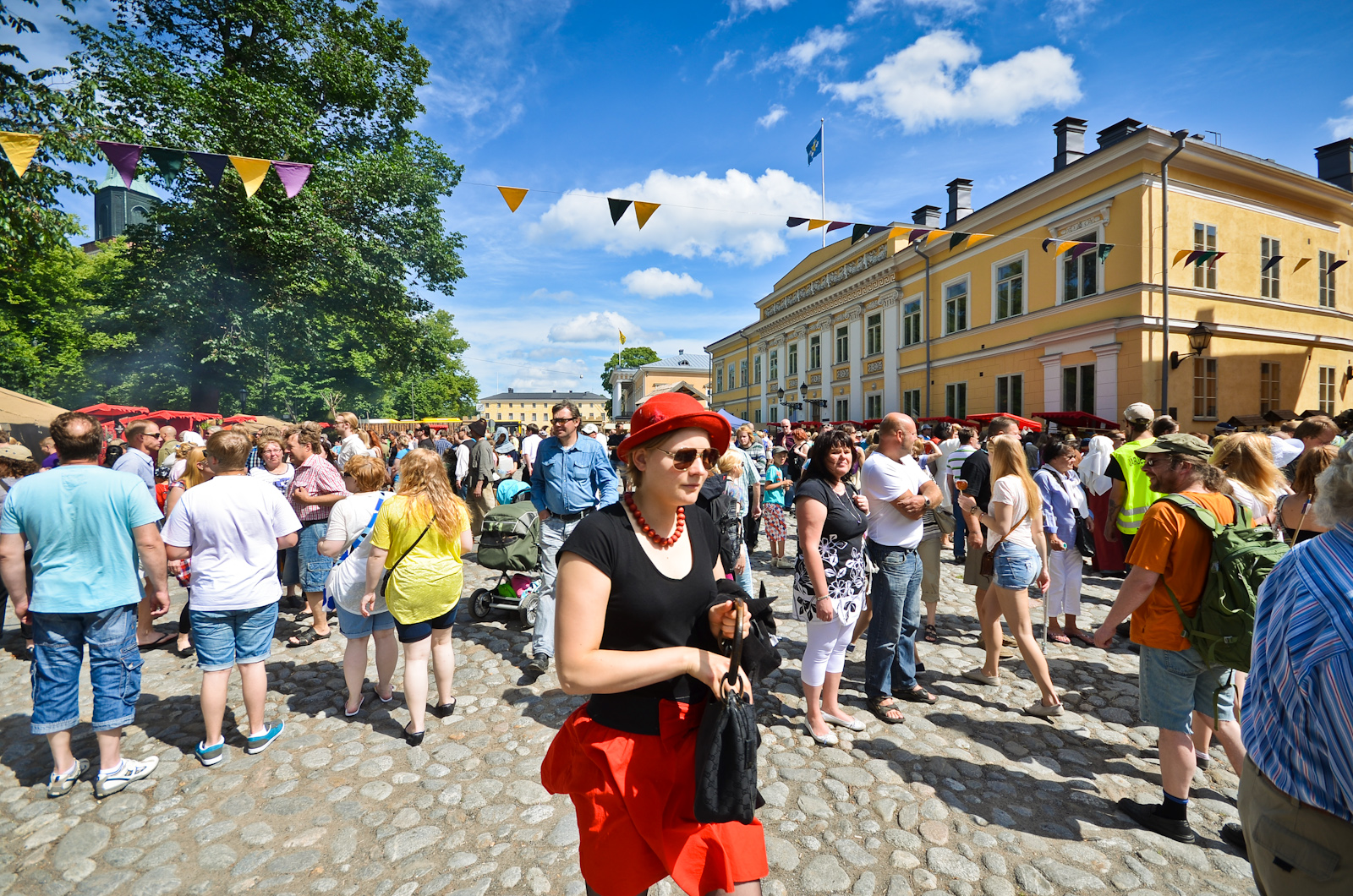 Bright and sunny day at the Medieval festival in Turku